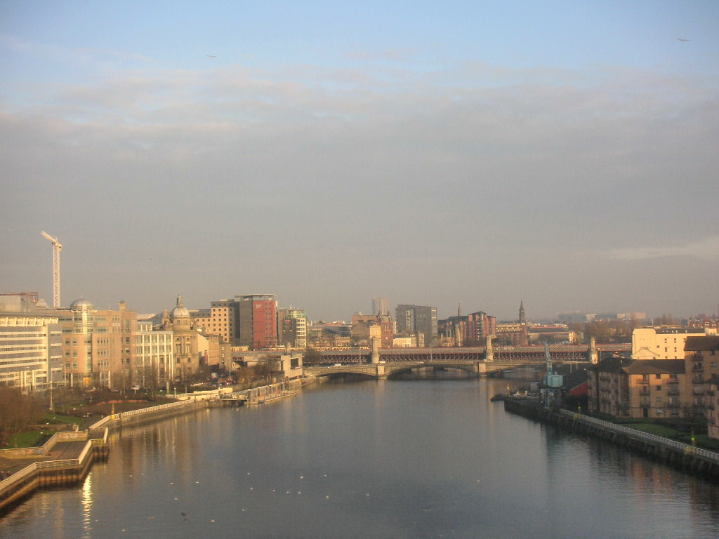 Glasgow from the Kingston Bridge looking east